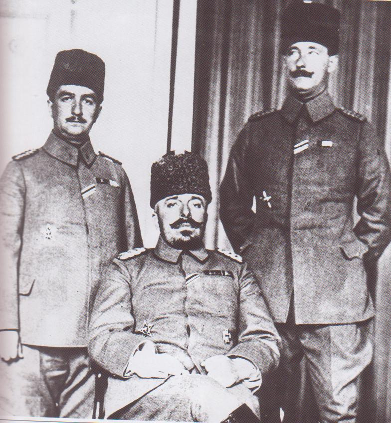 The commander of the Ottoman Third Army Mehmed Vehib Pasaha with dotor Salim Bey and staff colonel Husrev Bey